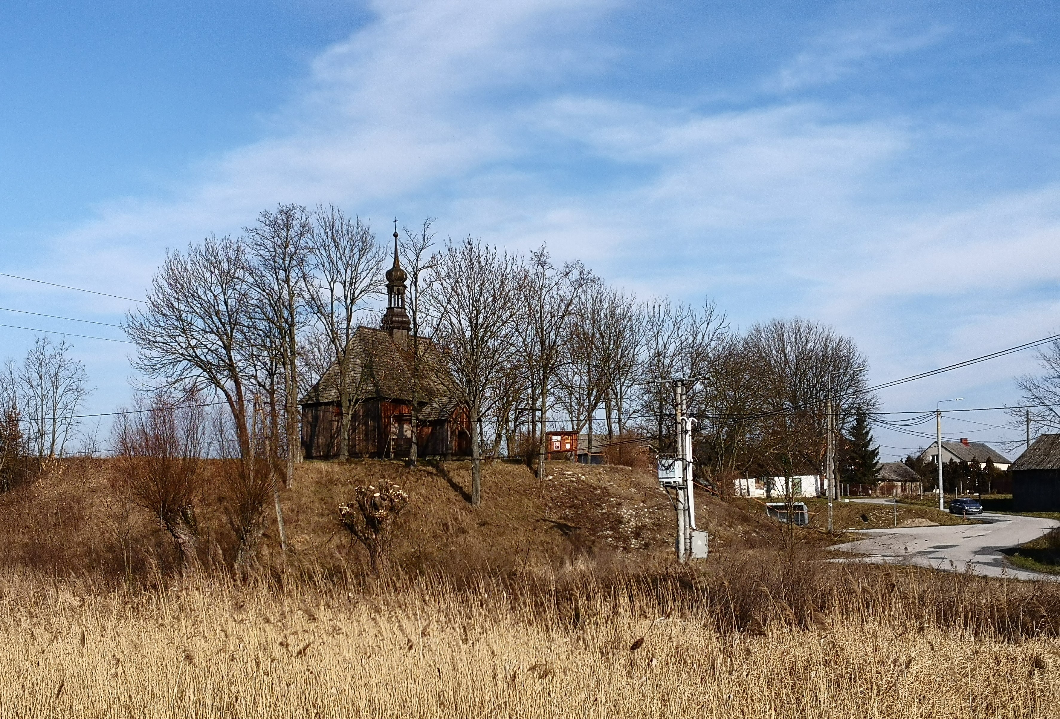 Chotelek Zielony - church of St. Stanislaus on a plaster hill and Mr Stanislaus Kokot's house (on the right) - view from the south-west; February 9, 2020